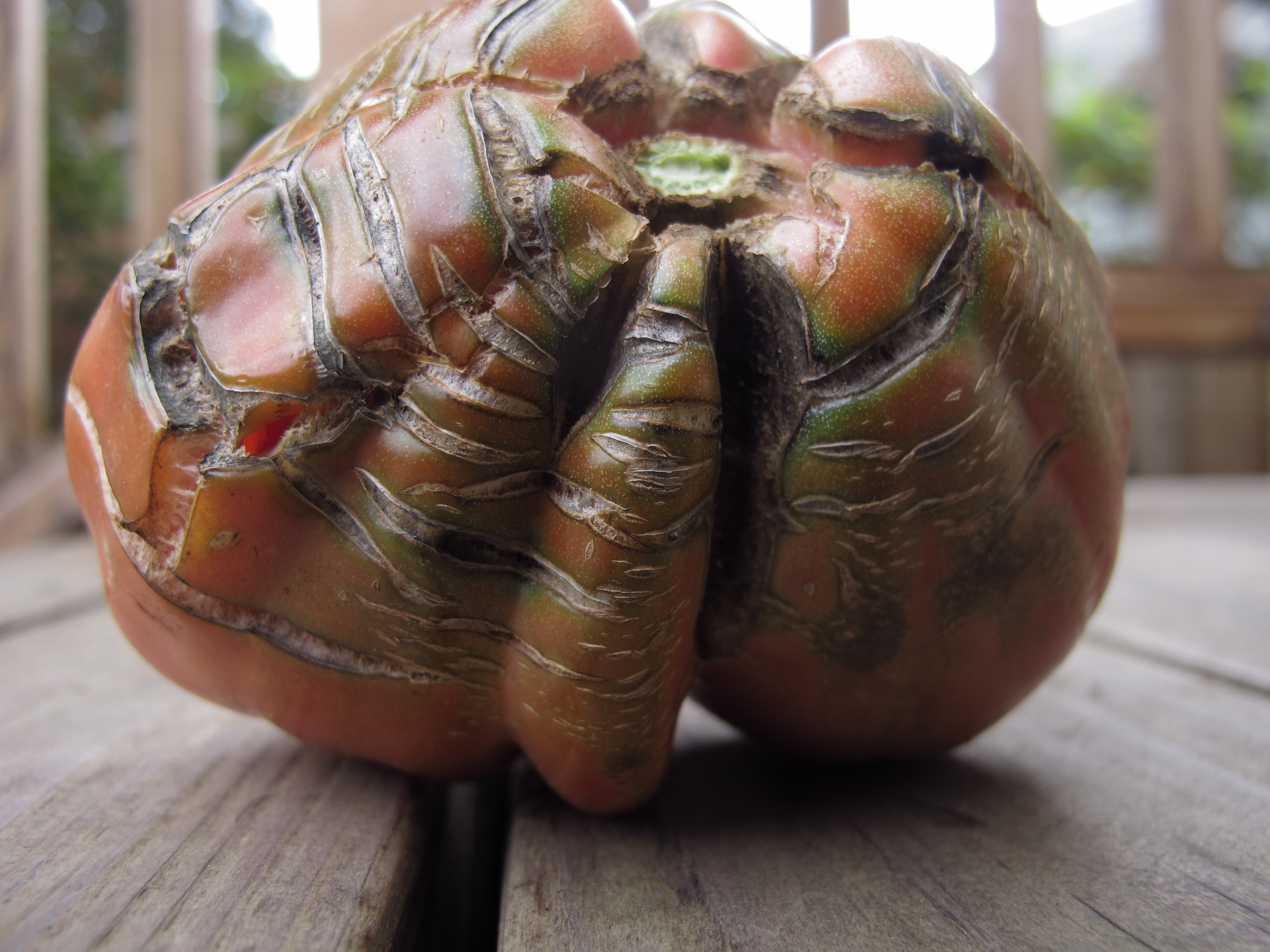 An heirloom tomato, harvested in early October, split due to rain.